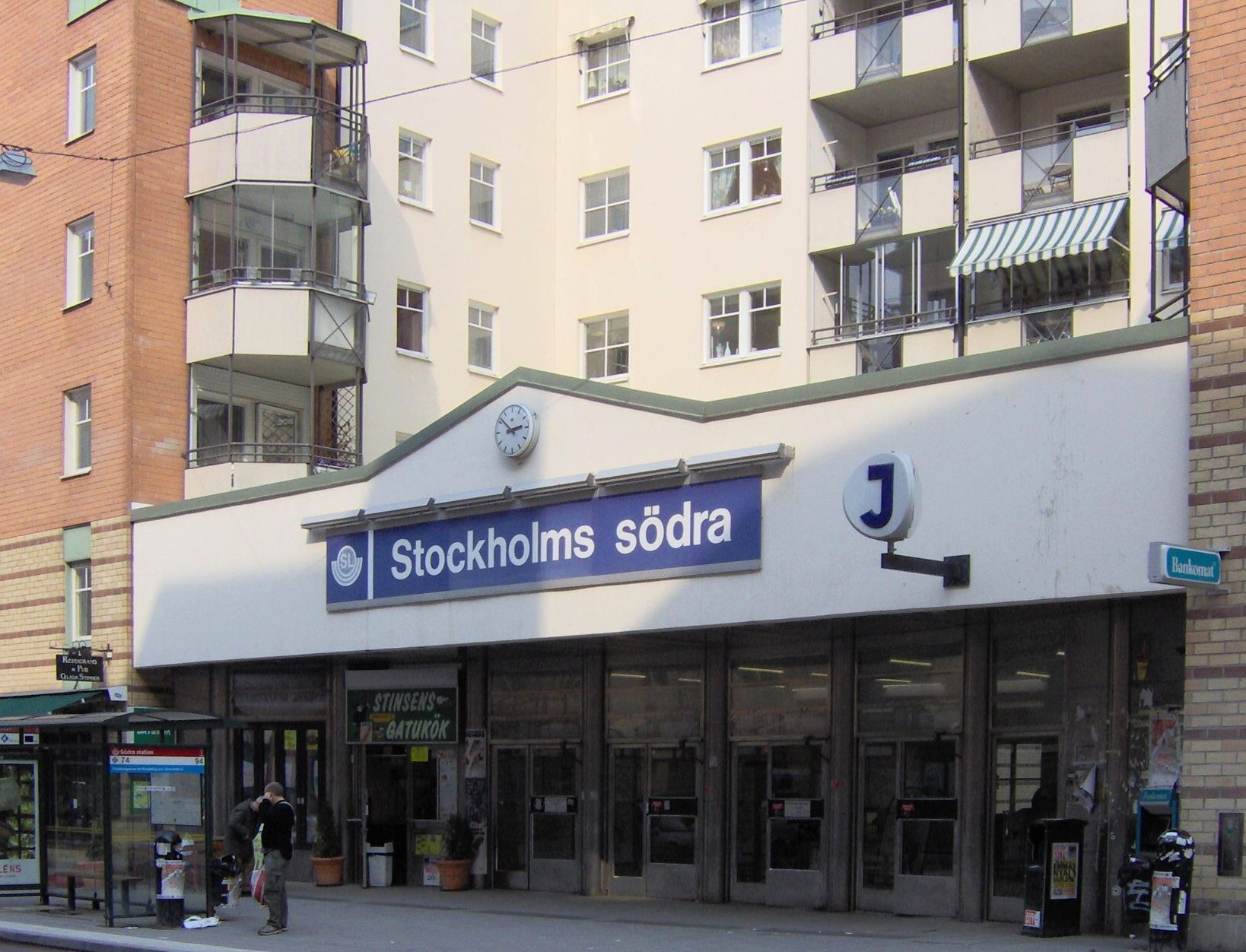 Stockholms South railwaystation. Entrance.